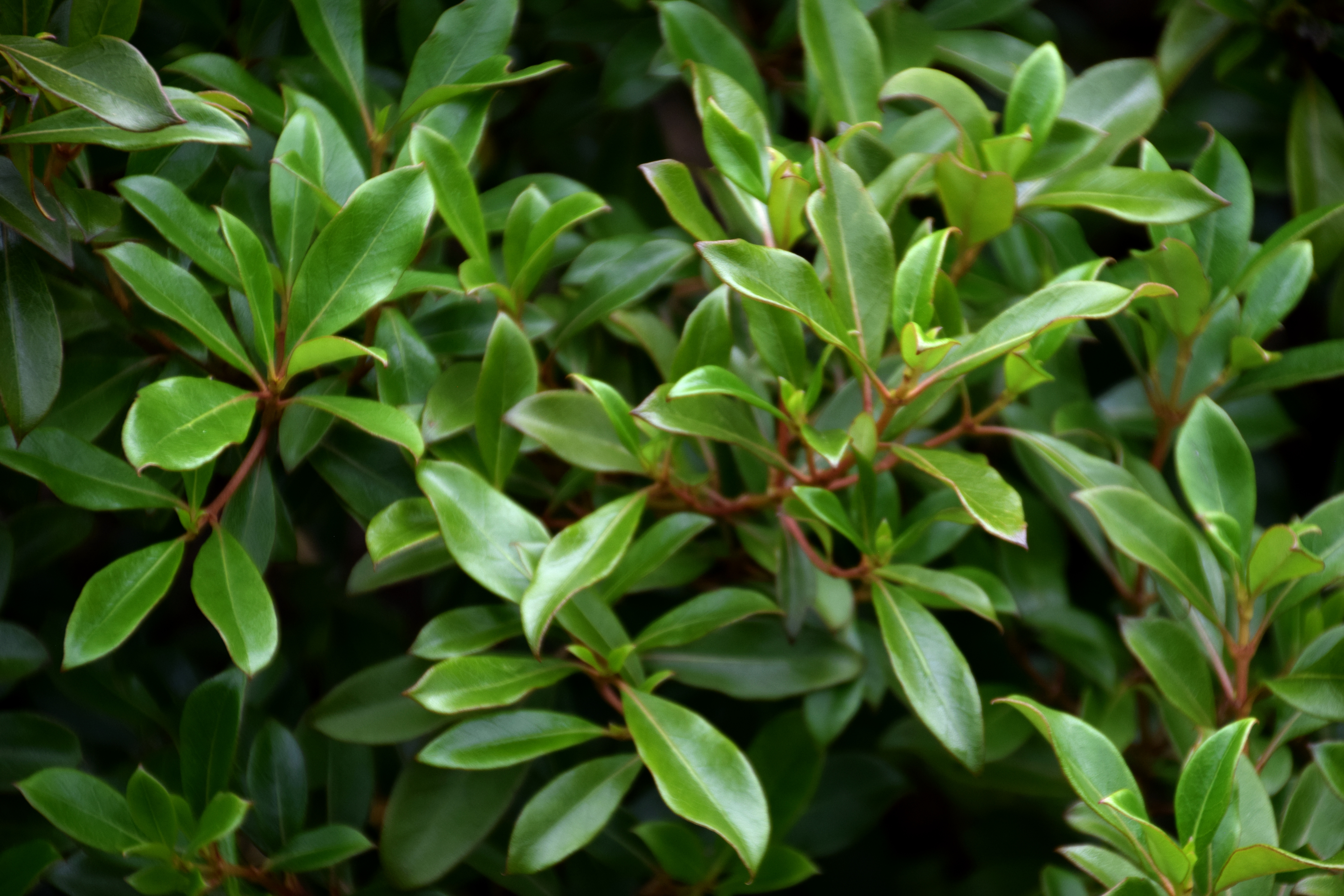 Coprosma dodonaeifolia in Auckland Botanic Gardens, Manurewa, South Auckland, New Zealand